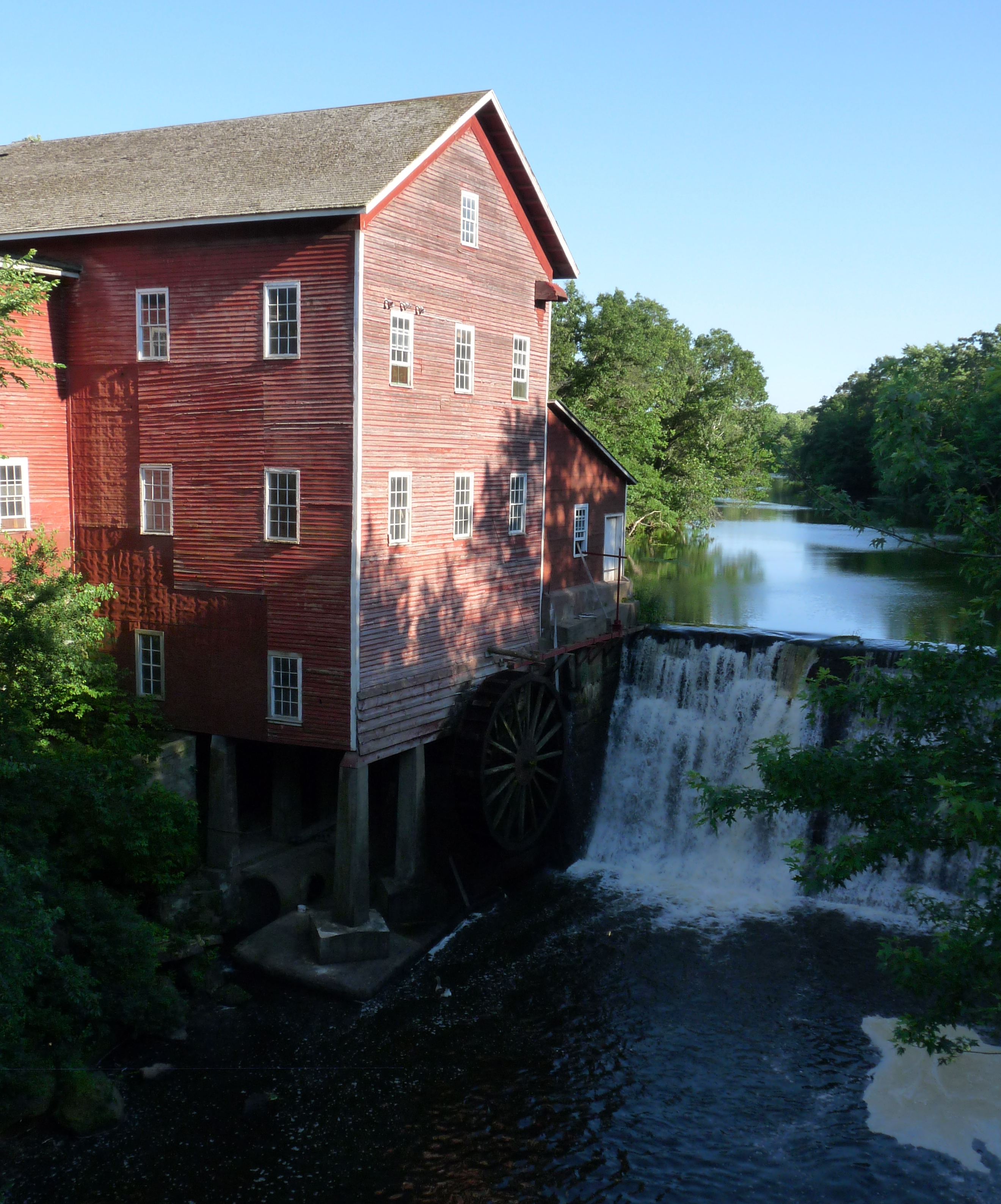 The Dells Mill north of Augusta, Wisconsin is a watermill built on Bridge Creek in 1864. At the time it was built to grind locally grown wheat into flour. Today the mill is a museum, on the National Register of Historic Places.